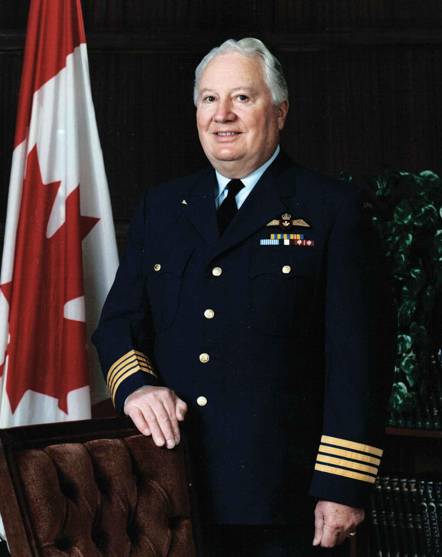 Hanoi Remembered Canadian Col. (Ret.) Lorne RodenBush discusses his role as Canada's Permanent Representative to the International Control Commission in Hanoi during the height of the bombing in the Vietnam War. This Wings & Things Guest Lecture took place on April 23, 2008.